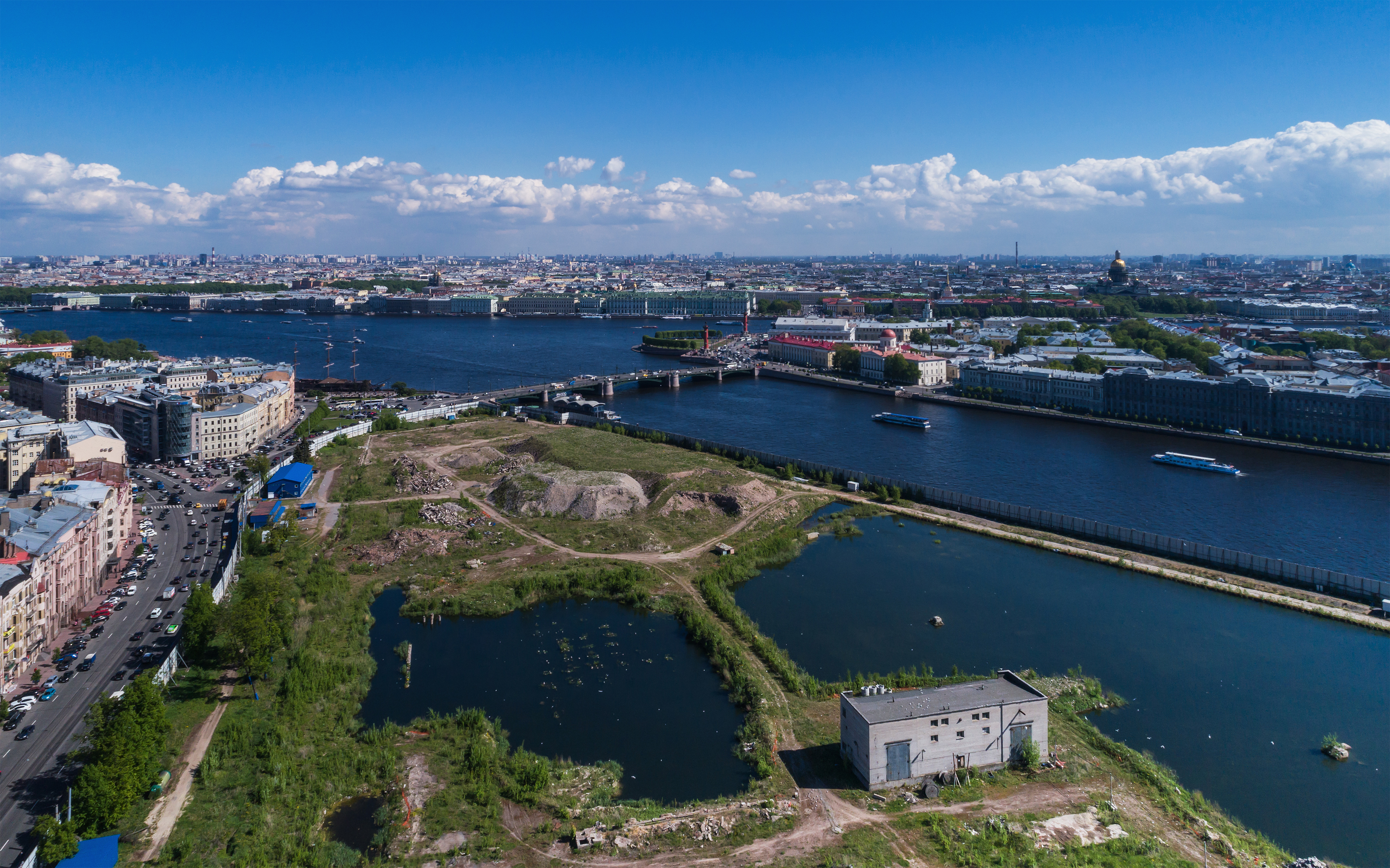 Aerial photo of Dobrolyubova Prospekt in Saint Petersburg (Russia).